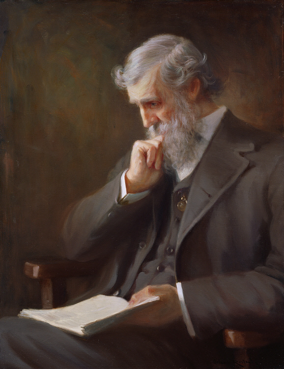 John Muir by Orlando Rouland, 1917. Oil on canvas